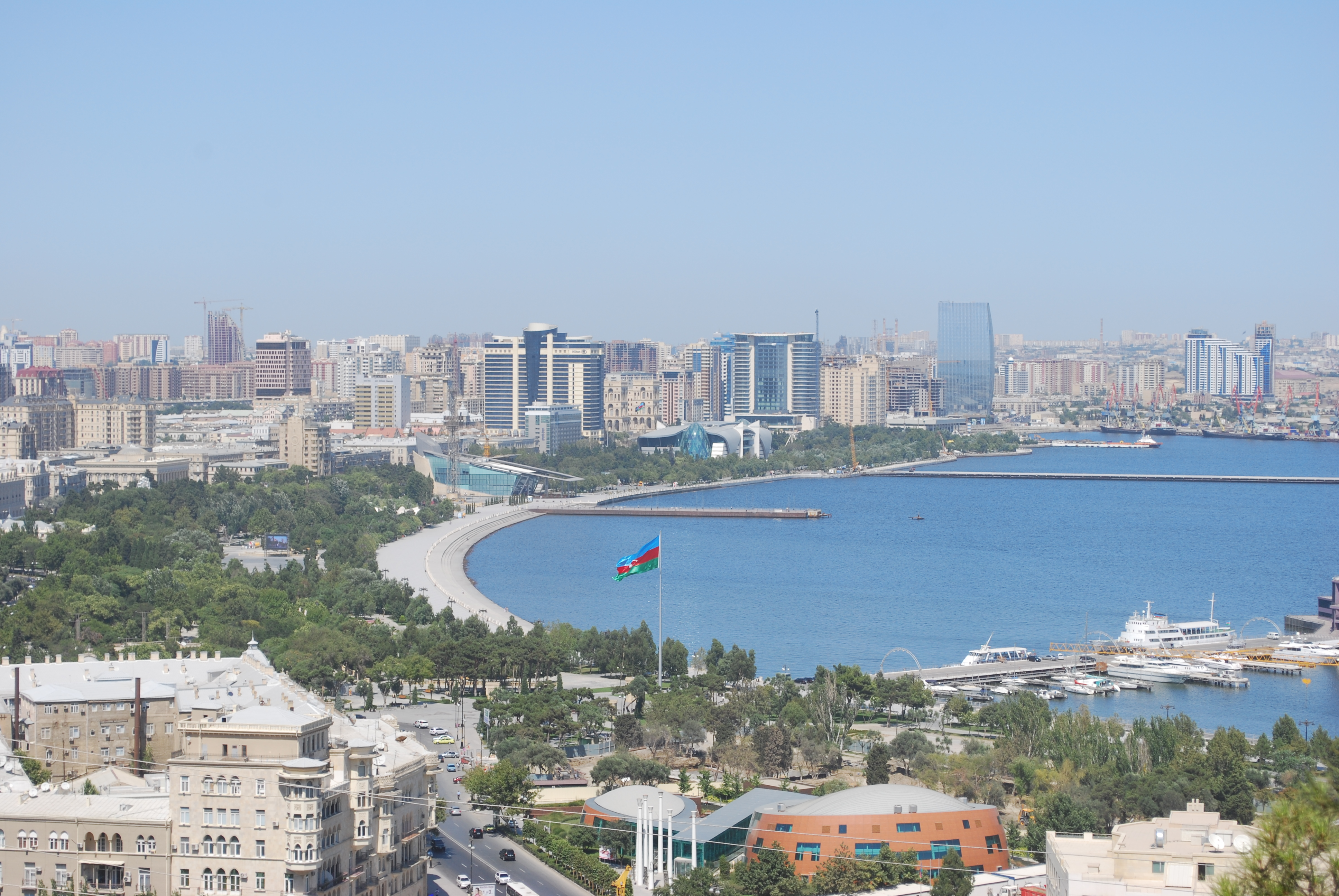 A view to Baku and Baku BoulevardEesti: Vaade Bakuule ja Bakuu bulvarile